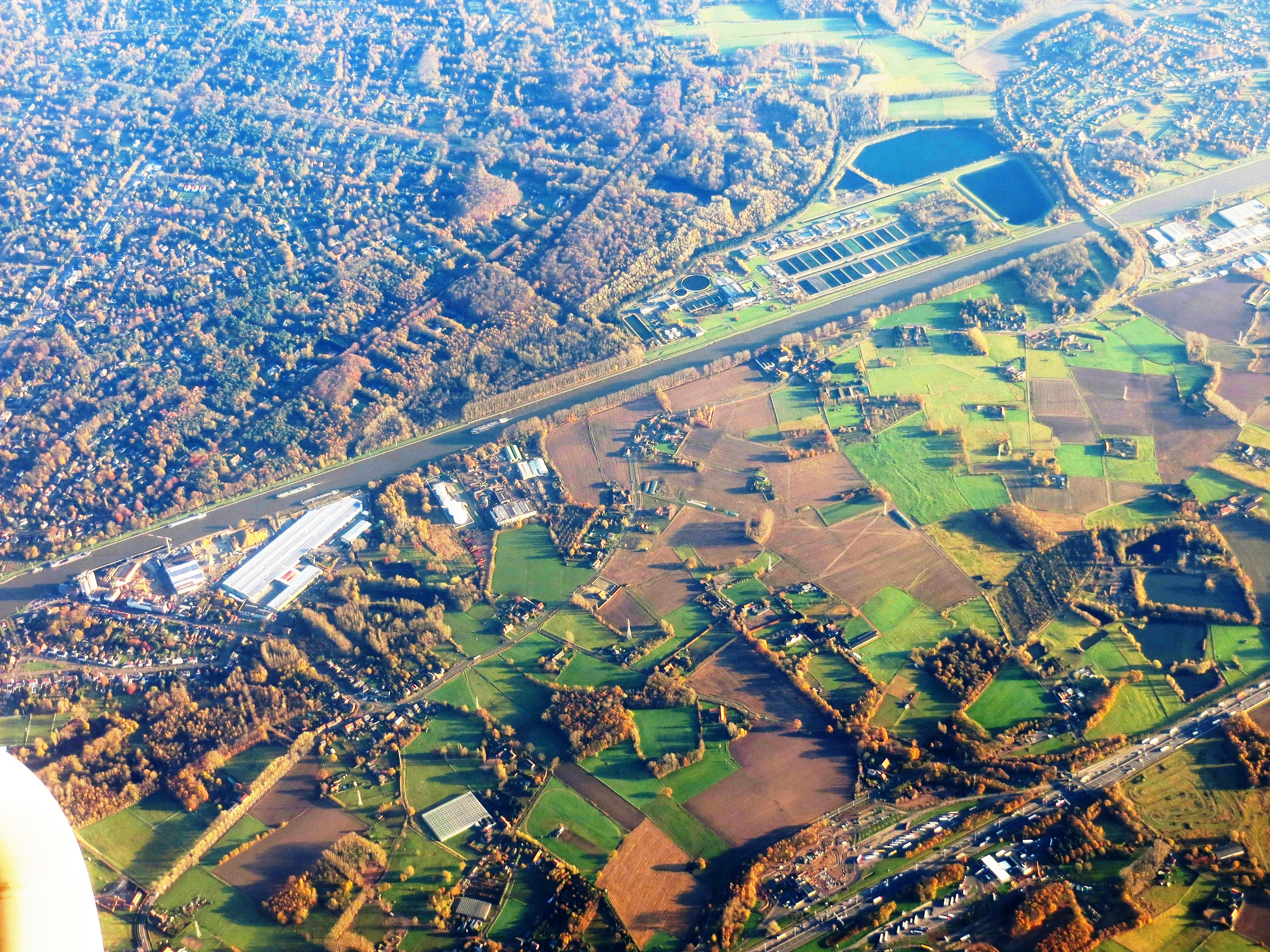 Aerial view from the (south)west towards (north)east, over the Hageland region, in southeastern Antwerpen province - north Belgium.